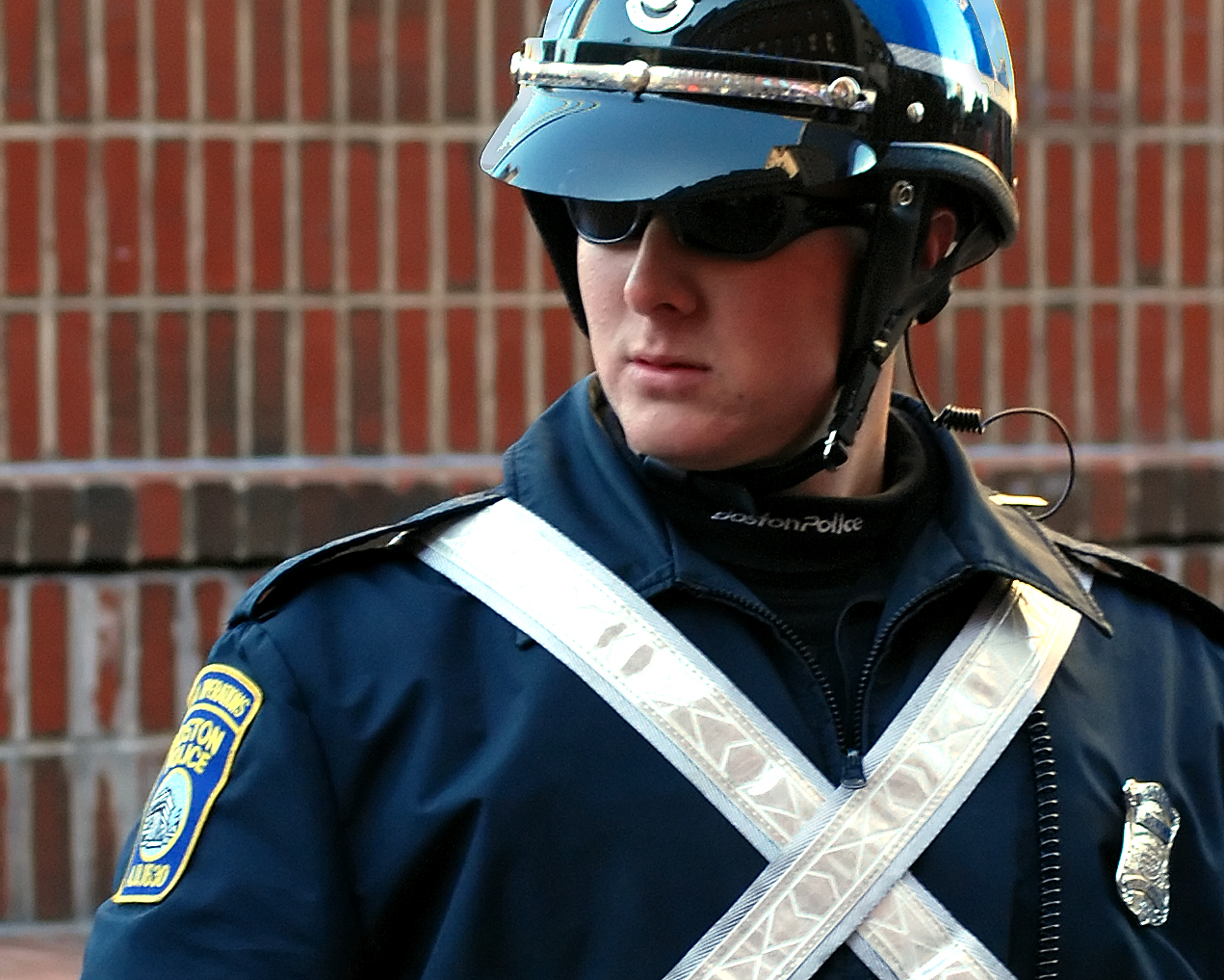 Boston Police - Special Operations Officer on duty at the 2007 Boston Veteran's Day parade.